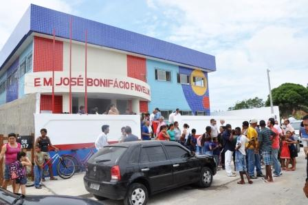 Escola Municipal José Bonifácio Ferreira Novellino, no bairro Jardim Peró, em Cabo Frio.